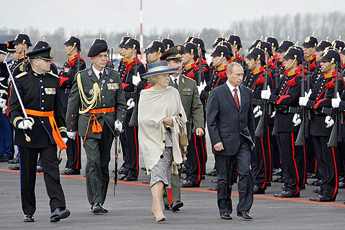 SCHIPHOL AIRPORT, AMSTERDAM. With Queen Beatrix at the official ceremony to greet the President of Russia.